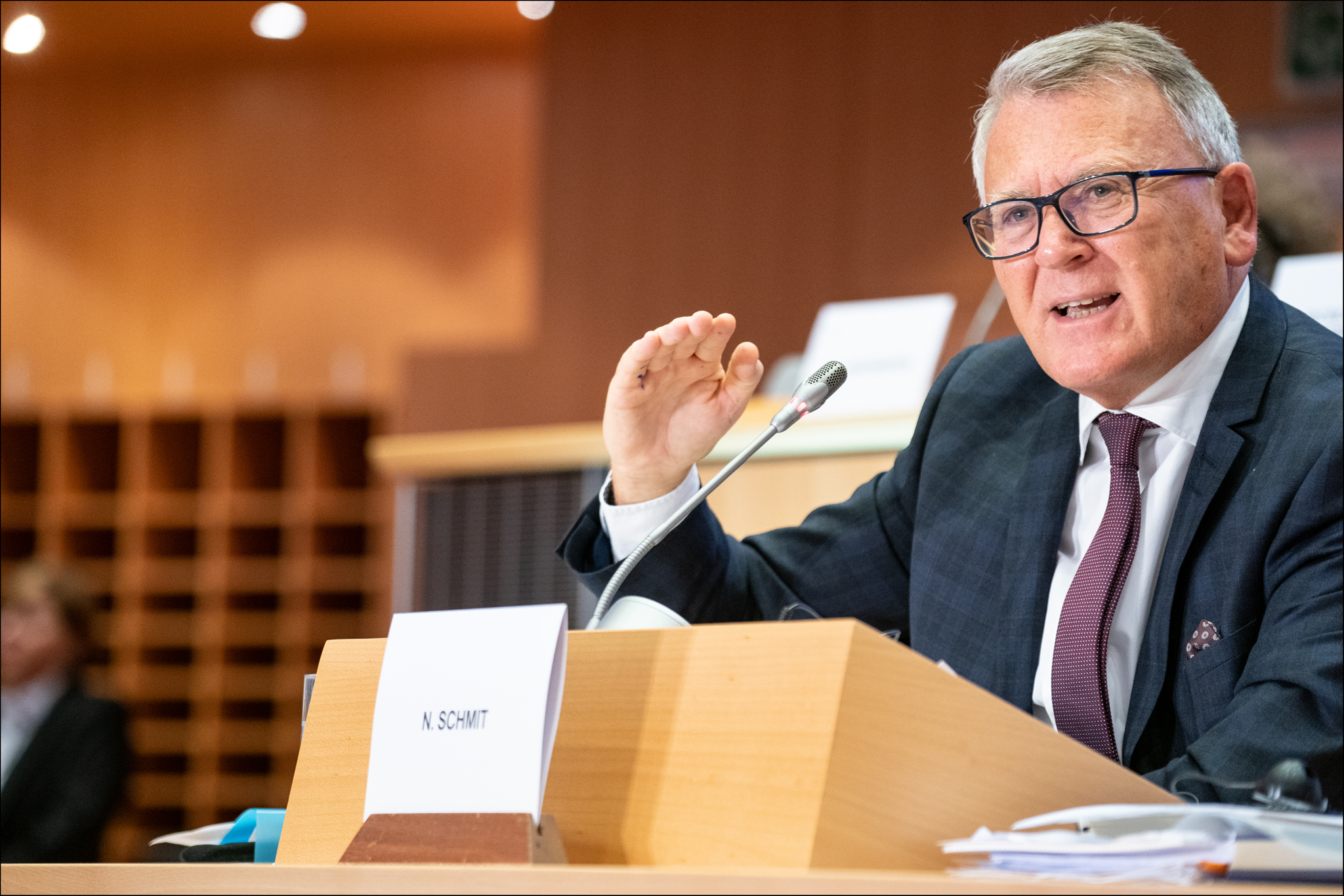 Before the European Parliament can vote the new European Commission led by Ursula von der Leyen into office, parliamentary committees will assess the suitability of commissioners-designate. On 23-26 May, more than 200,000,000 people in 28 EU countries went to the polls to elect members of the European Parliament, giving them a strong democratic mandate, including voting into office the new European Commission and examining the competencies and abilities of its commissioners-designate. Elected members of the European Parliament will also listen to their ideas and will assess their willingness to take concrete actions on the issues that Europeans care about. Each candidate commissioner is invited for a live-streamed, three-hour hearing in front of the committee or committees responsible for their proposed portfolio. The hearings will take place between Monday 30 September and Tuesday 8 October. This photo is free to use under Creative Commons license CC-BY-4.0 and must be credited: "CC-BY-4.0: © European Union 2019 – Source: EP". No model release form if applicable. For bigger HR files please contact: webcom-flickr(AT)